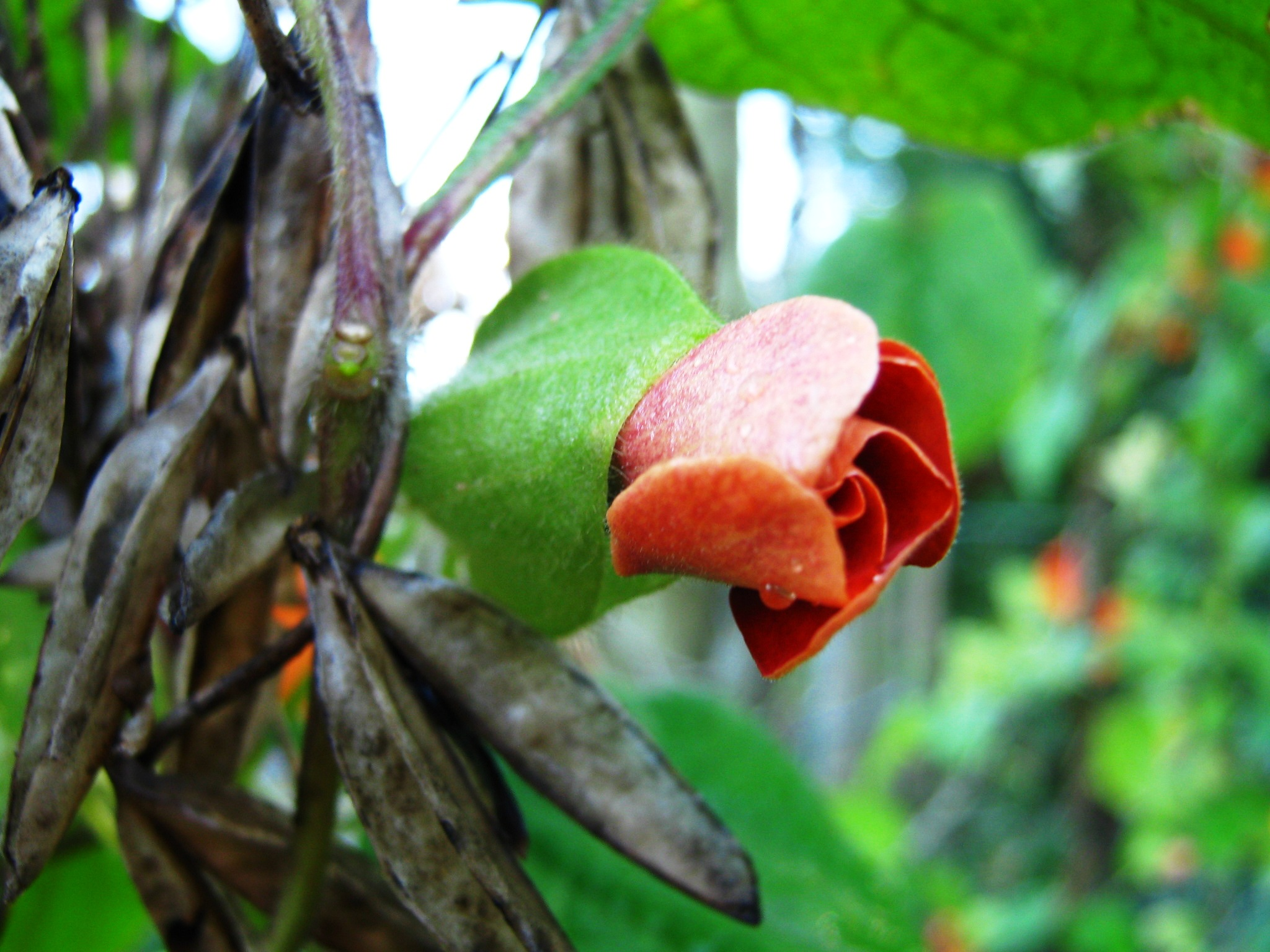 A budding Black Eyed Susan flower.